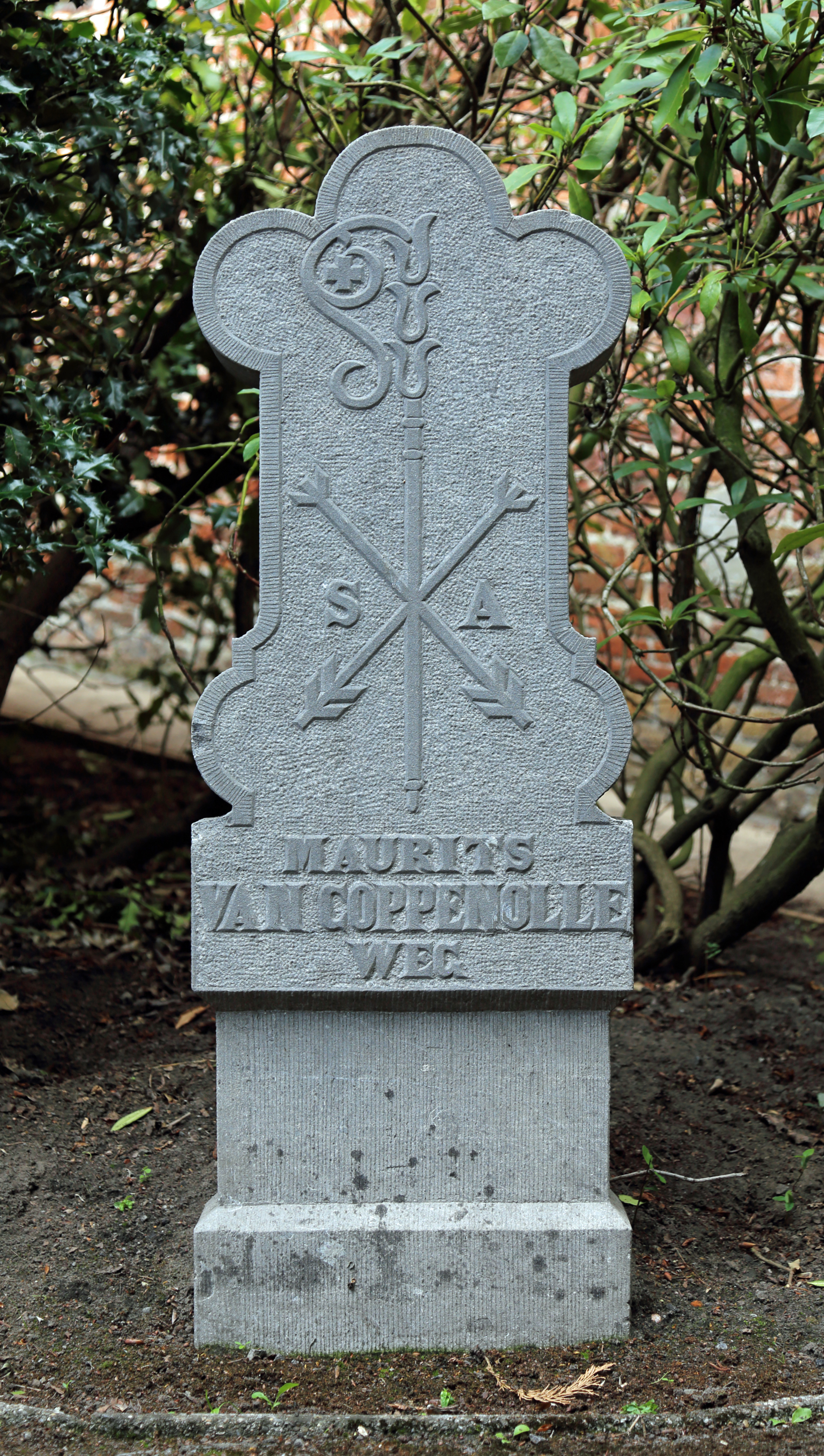 Sint-Andries (Bruges, Belgium): remembrance stone to the historian Maurits Van Coppenolle (1910-1955) at the chapel of Onze-Lieve-Vrouw van 't Boompje